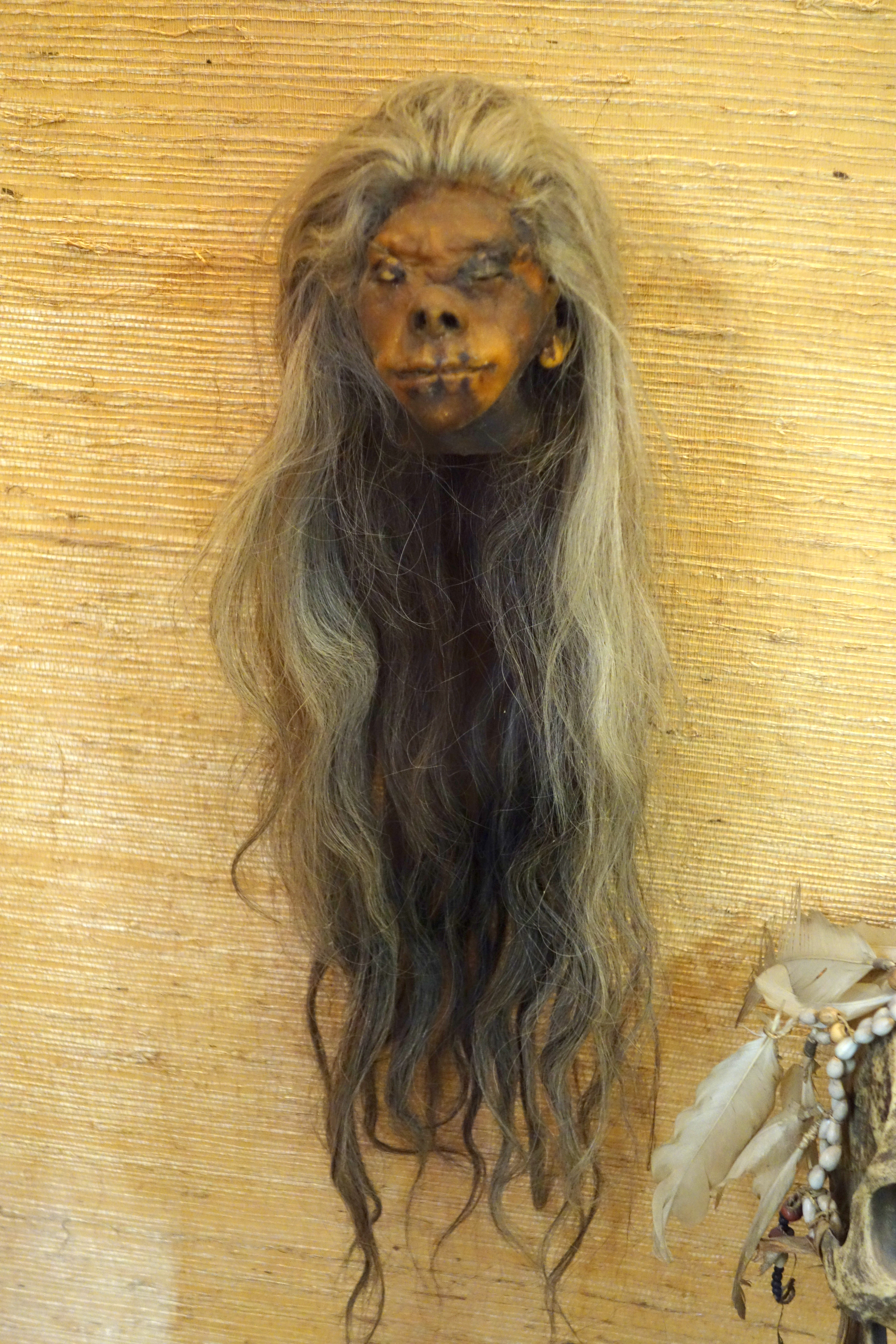 Exhibit in the Royal Museum for Central Africa, Tervuren, Belgium. This object is old enough so that it is in the public domain.